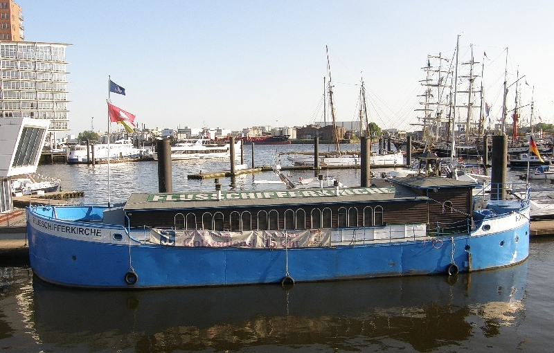 The Flussschifferkirche (Boatman's Church) in Hamburg, Germany, a protestant church built into a ship; probably the only "floating church" in Germany